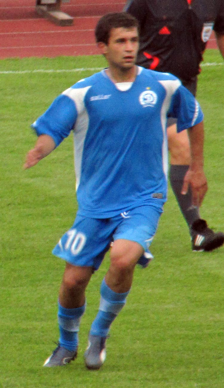 The Belarusian footballer Syarhey Kislyak at a match with Tromsö IL in Minsk, Belarus.